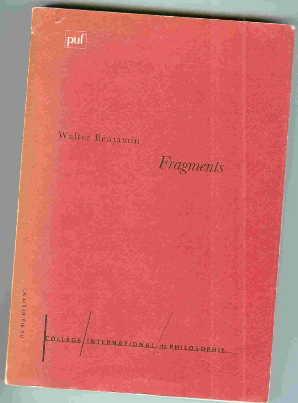 Book cover